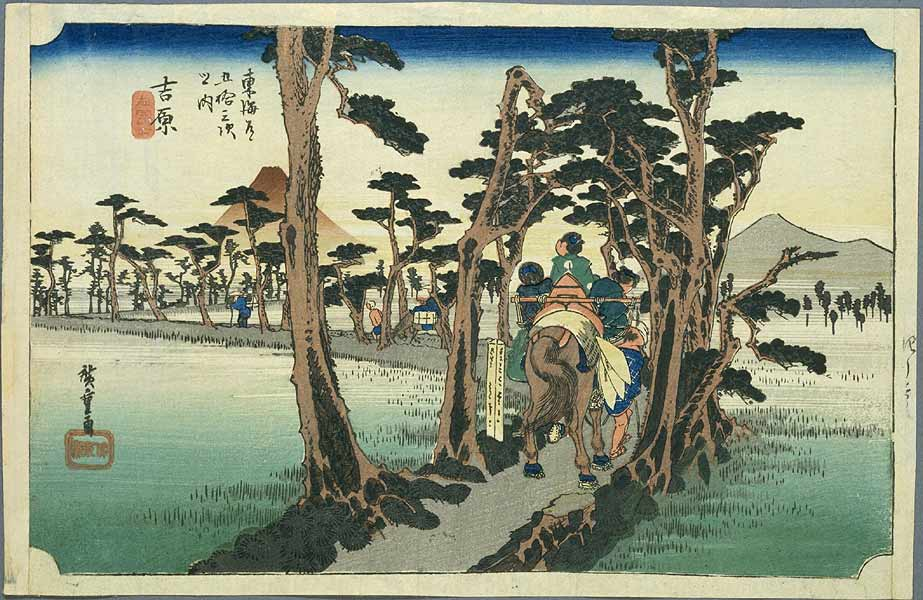 Yoshiwara on the Tokaido, ukiyo-e prints by